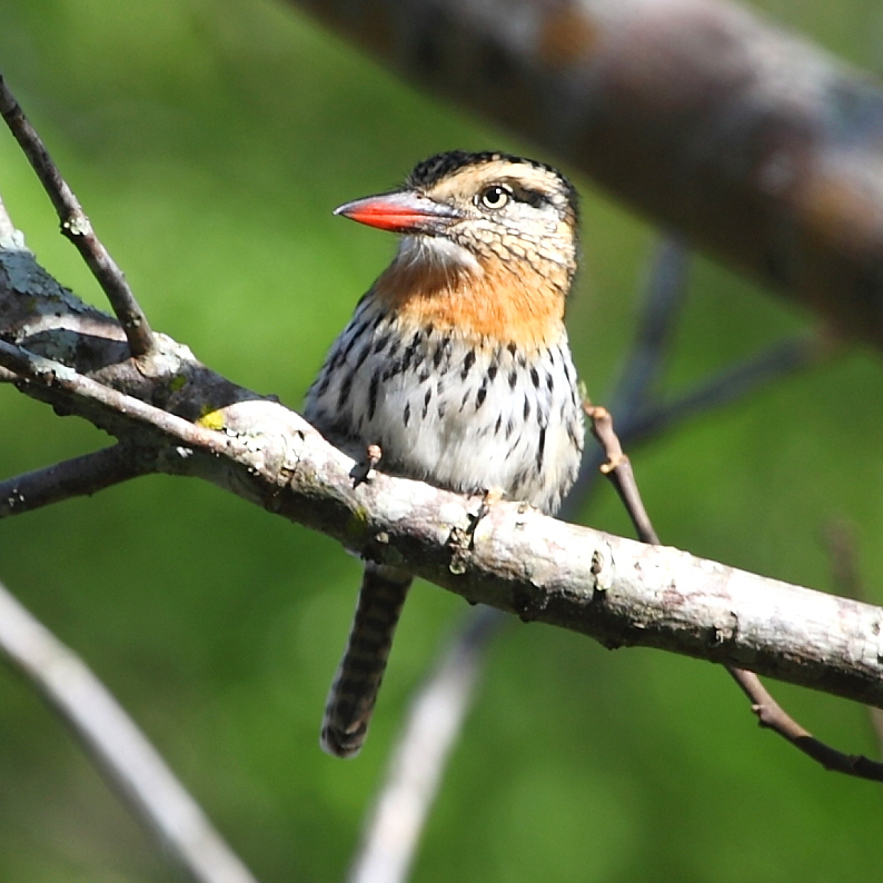 Chaco (or streak-bellied) Puffbird at Bonito - MS - Brazil